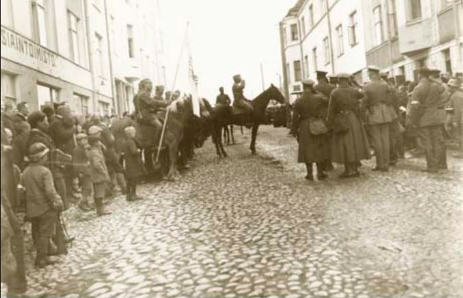 1918 Finnish Civil War: German general Otto von Brandenstein and Estonian coloel Hans Kalm meet in Lahti.